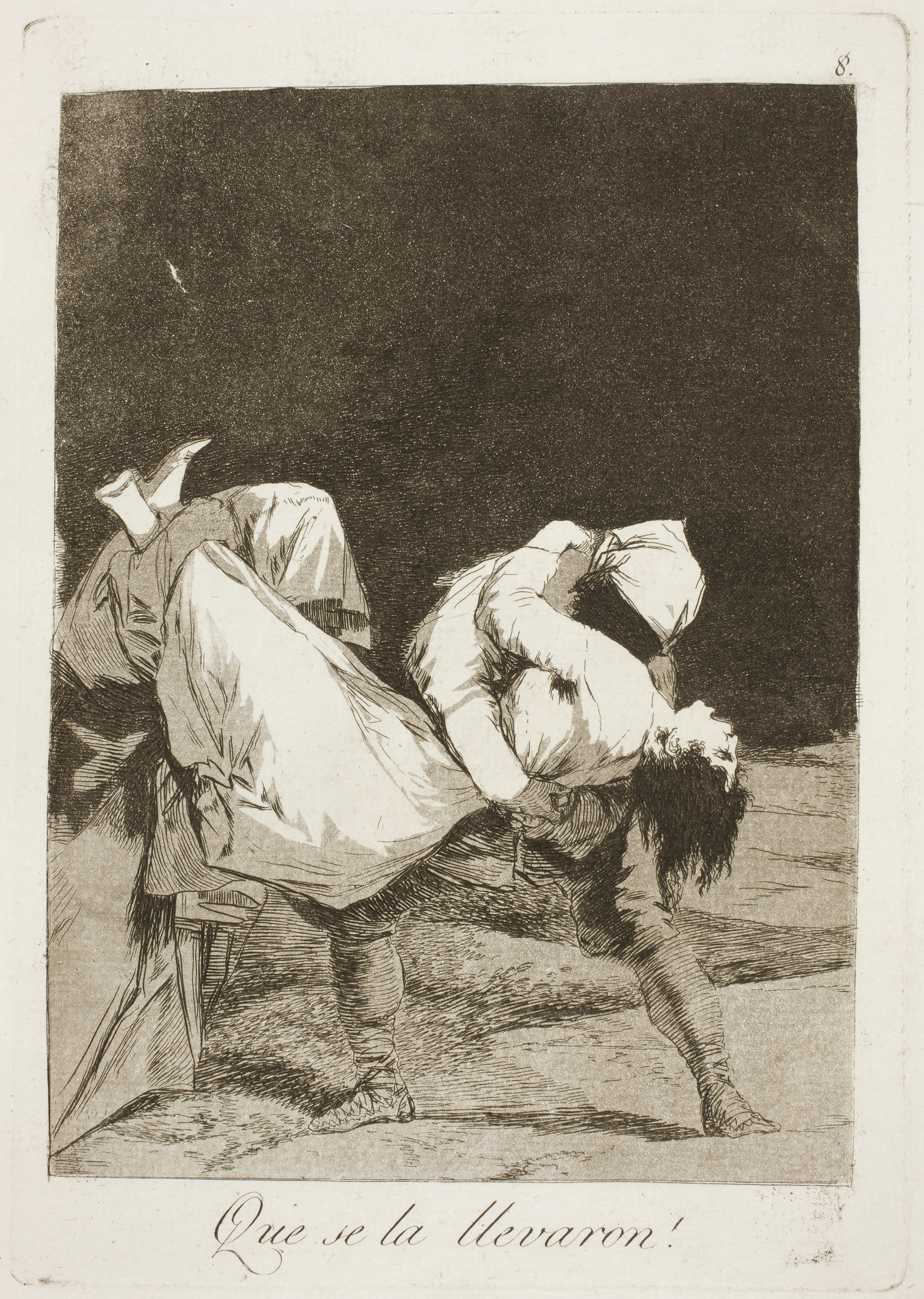 This print is work No. 8 of the "Caprichos" series (1st edition, Madrid, 1799).